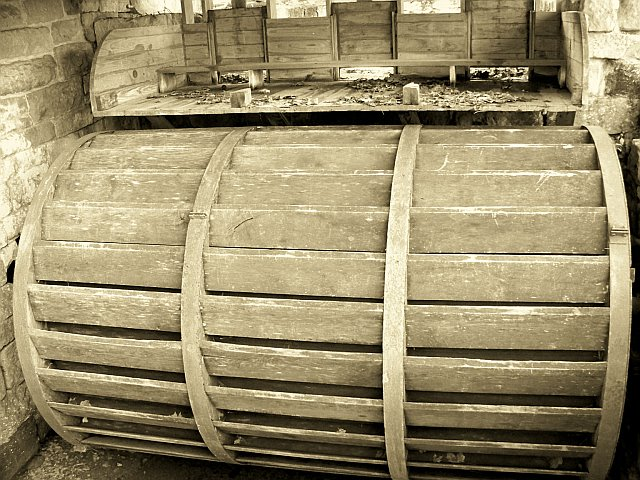 The waterwheel at Gaston's Mill, Beaver Creek State Park, Ohio